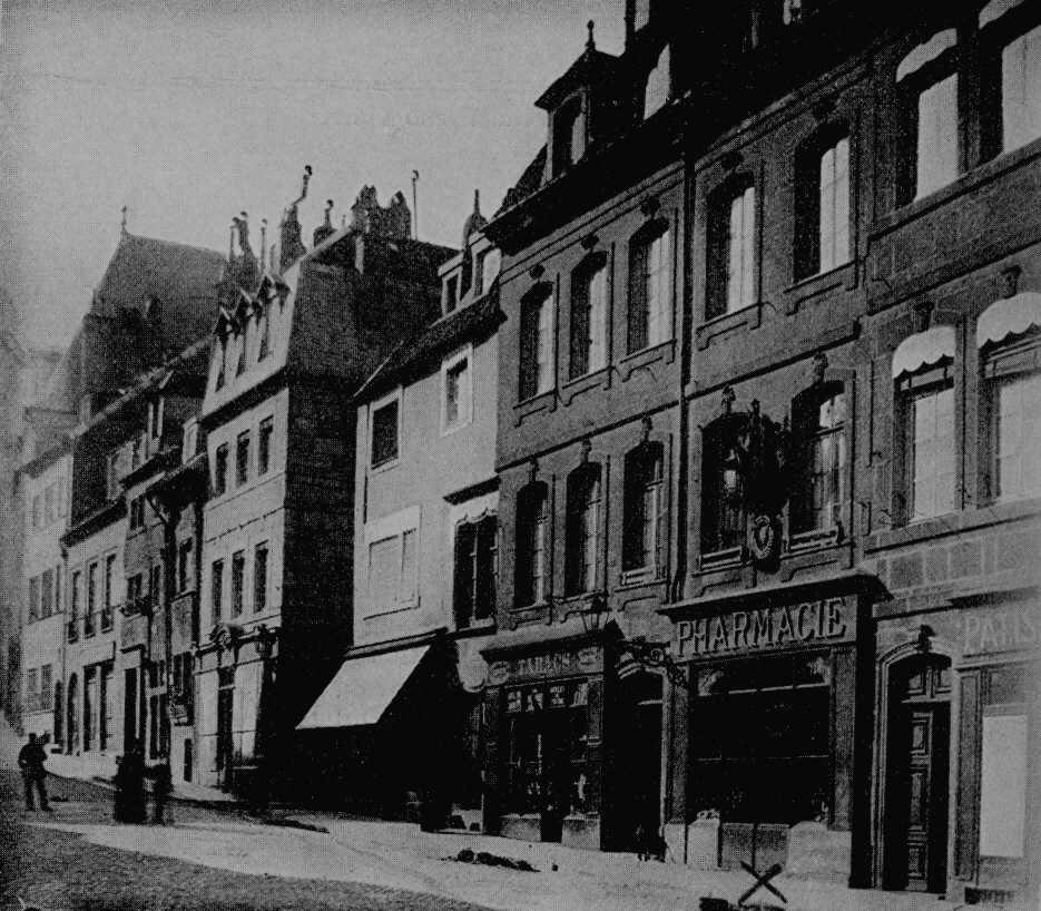 the house in Besancon where Victor Hugo was born